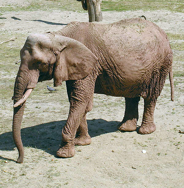 African elephant at Paignton Zoo, Devon, England.